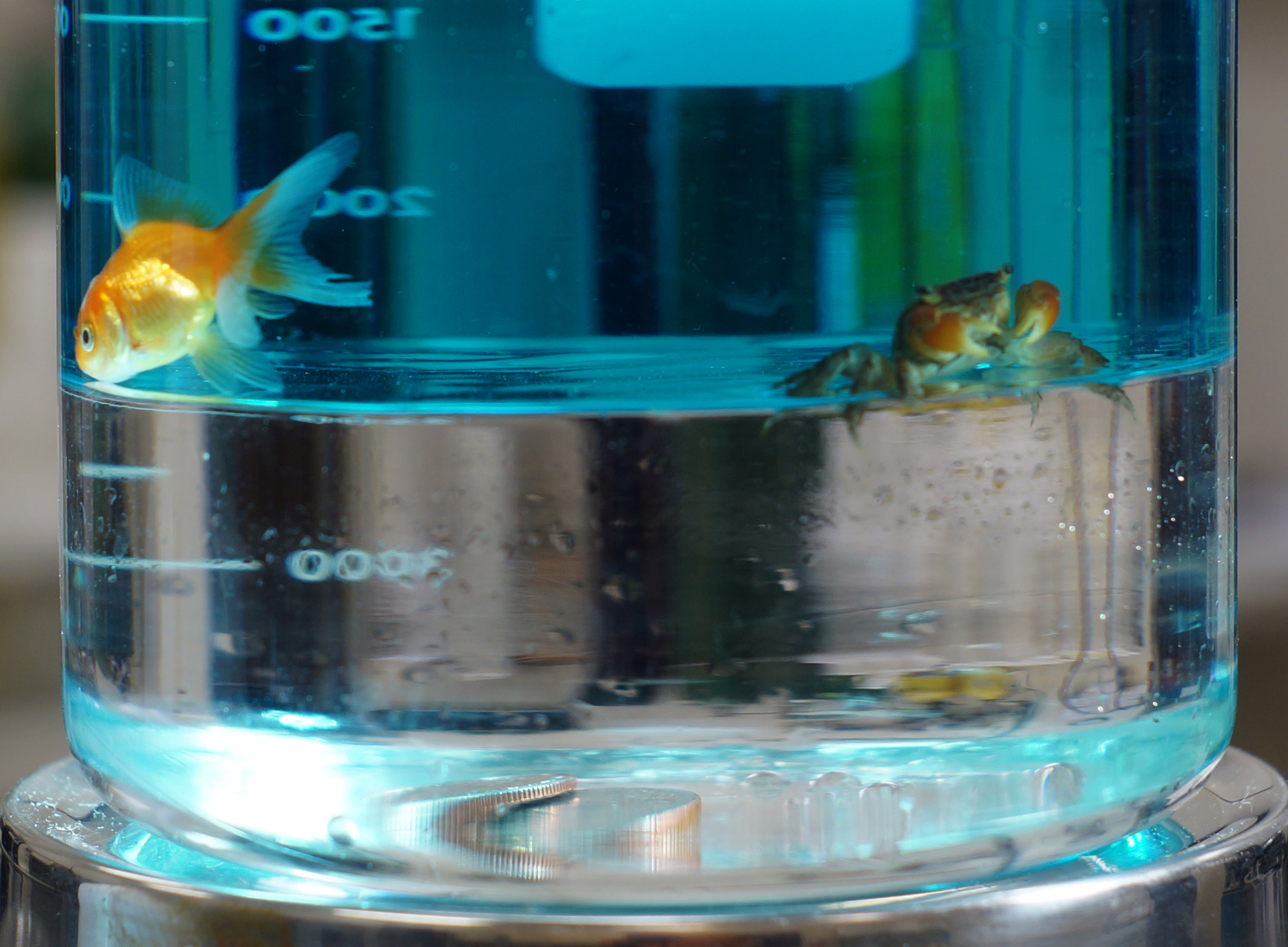 A beaker holds water with blue food dye (upper liquid layer) and a much more dense perfluoroheptane (a fluorocarbon) lower liquid layer. The two fluids cannot mix and the dye cannot dissolve in fluorocarbon. A goldfish and a red clawed crab have been introduced into the water. The goldfish cannot penetrate the dense fluorocarbon. The crab floats at the liquid boundary with only parts of his legs penetrating the fluorocarbon fluid, unable to sink to the bottom of the beaker. Quarter coins rest on the bottom of the beaker. Animals were rescued from their predicament after the photo was taken.